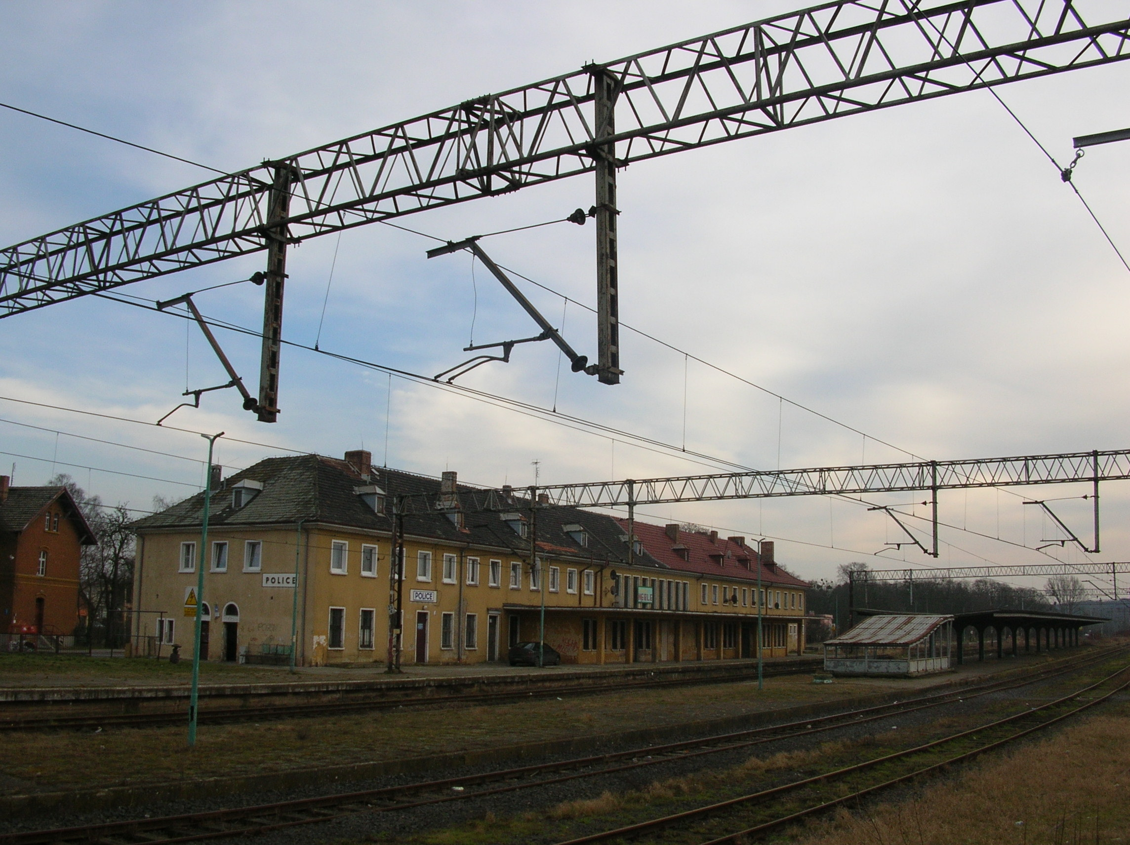 The Main Railway Station in Police, a town in Pomerania, Poland / Police, Dworzec Główny